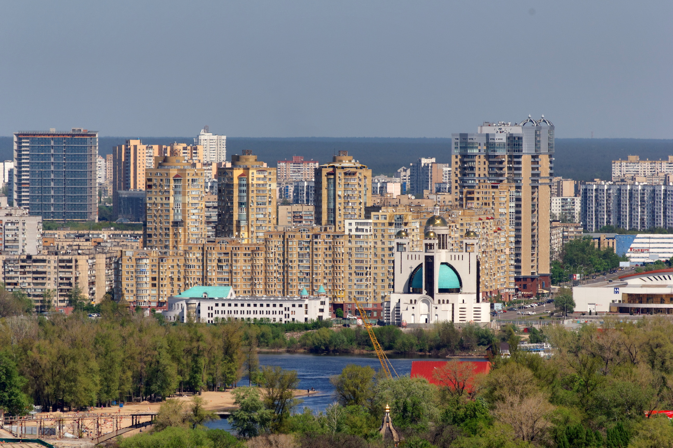 Kiev (city)